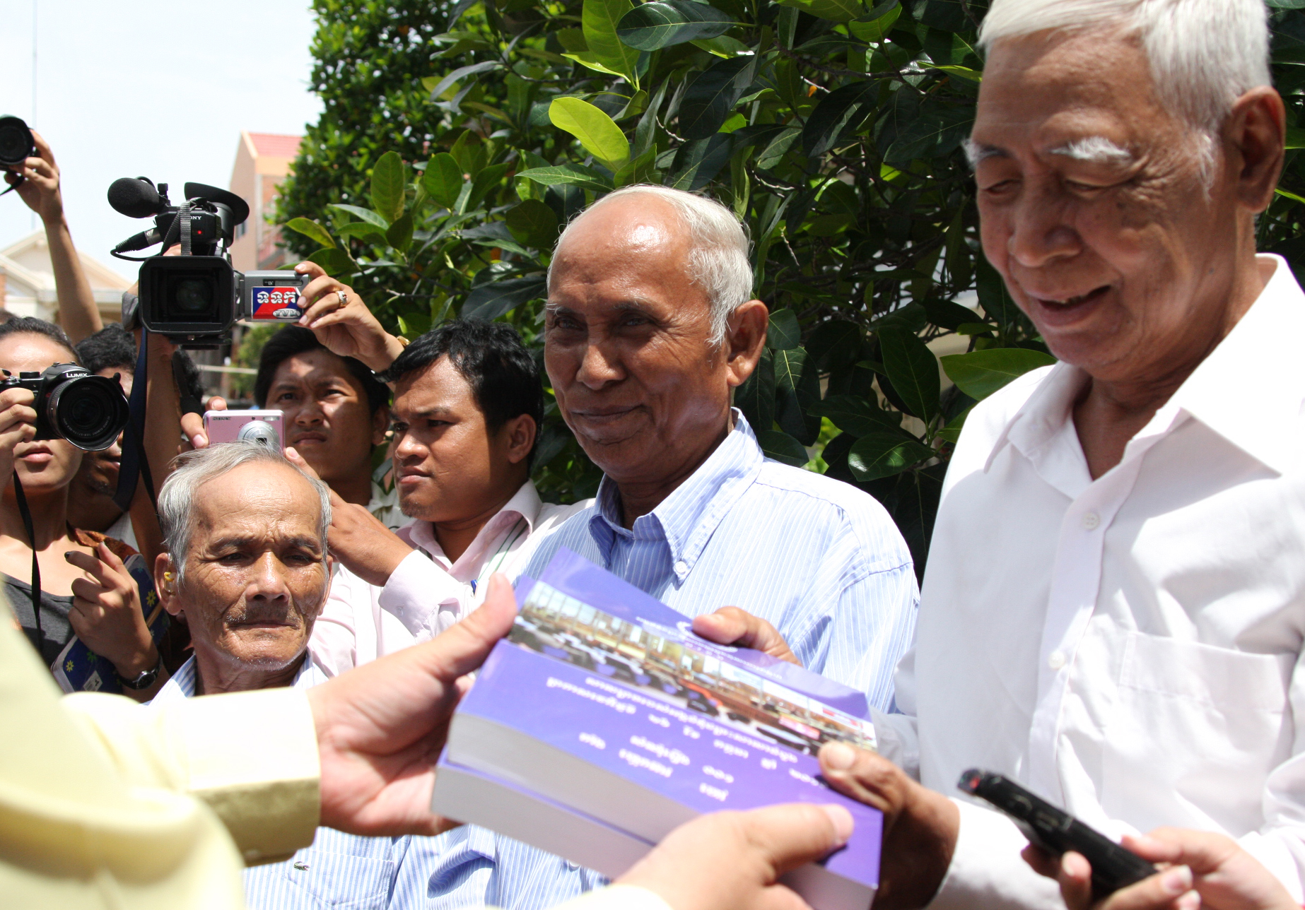 Bou Meng (left), Chum Mey (center) and Vann Nath (right) after having received a copy of the Duch-verdict on 12 Aug 2010. They are three of only a handful survivors from the secret Khmer Rouge prison S21 where at least 12,273 people were tortured and executed. ECCC Public Affairs Section has started the job of distributing 10,000 copies of the Duch-verdict (450 pages) and 17,000 copies of the summary (36 pages). These documents will available in all 1,621 communes in Cambodia as well as in libraries, schools and other public institutions. Kaing Guek Eav alias Duch was found guilty of crimes against humanity and war crimes and sentenced to 35 years of imprisonment on 26 July 2010. He is the first person to stand trial before the Extraordinary Chambers in the Courts of Cambodia, more commonly referred to as the Khmer Rouge tribunal. Fore